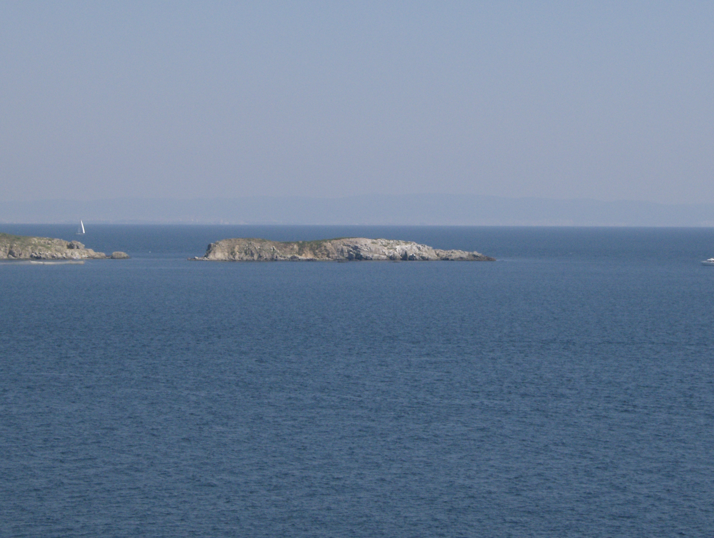 St. Peter Island, Bulgaria